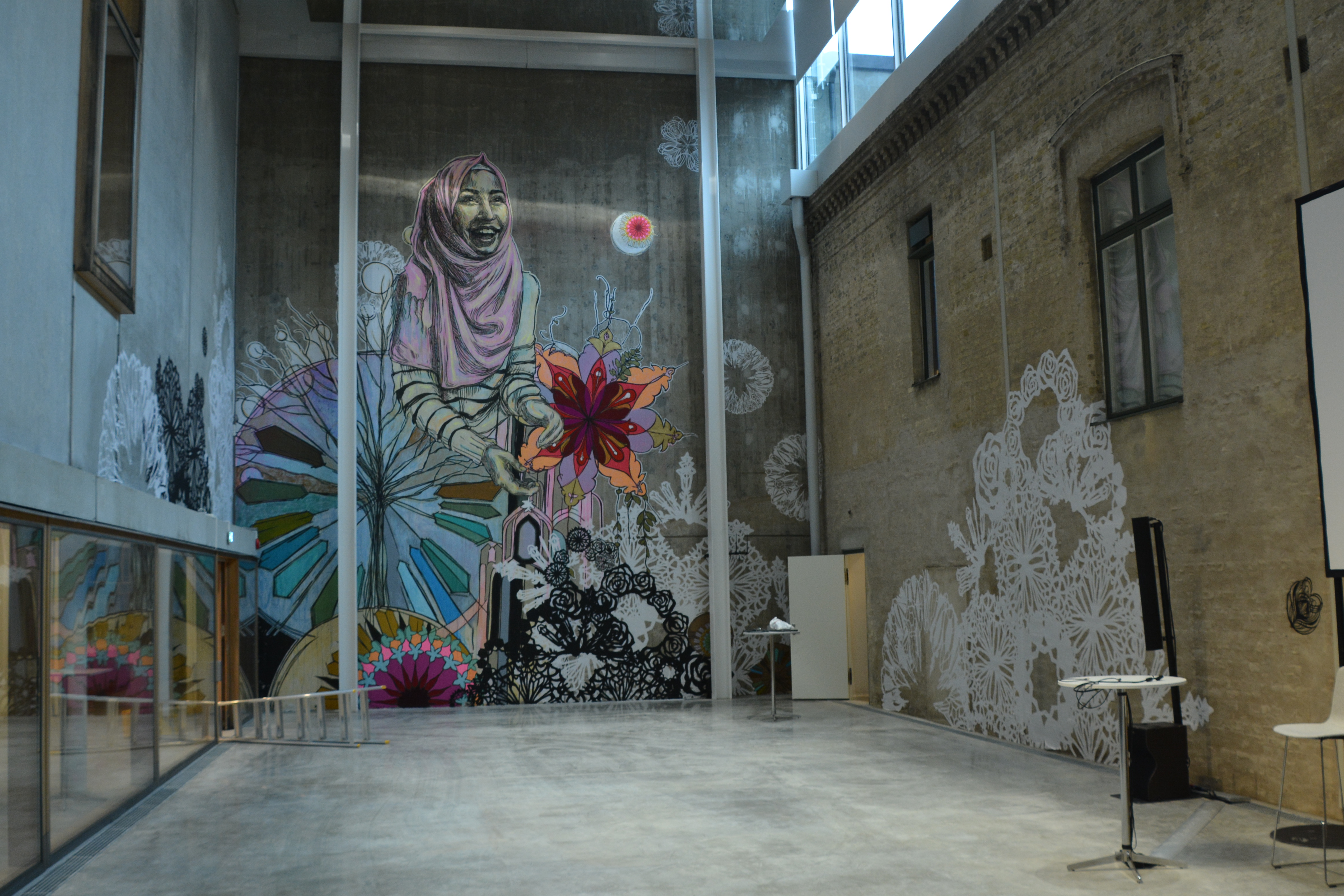 Skissernas museum. Birgit Rausings sal